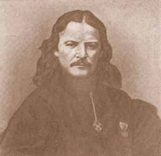 A photo of famous Russian Orthodox Christian activist Alexander Gumilevskiy (founder of the first Christian charity society; one branch of his work he was head of (sister medical brotherhood) was very important for the International Red Cross Organization, according to the 1896 Henry Dunant's letter to the Russian Red Cross society mentioning his sisterhood organization funded by Grand Dutchess Elena Pavlovna).